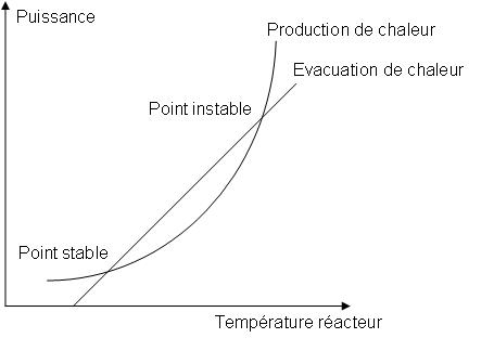 This figures shows how the power released by a chemical reaction and the cooling power evolve with the temperature. Legends are in french.